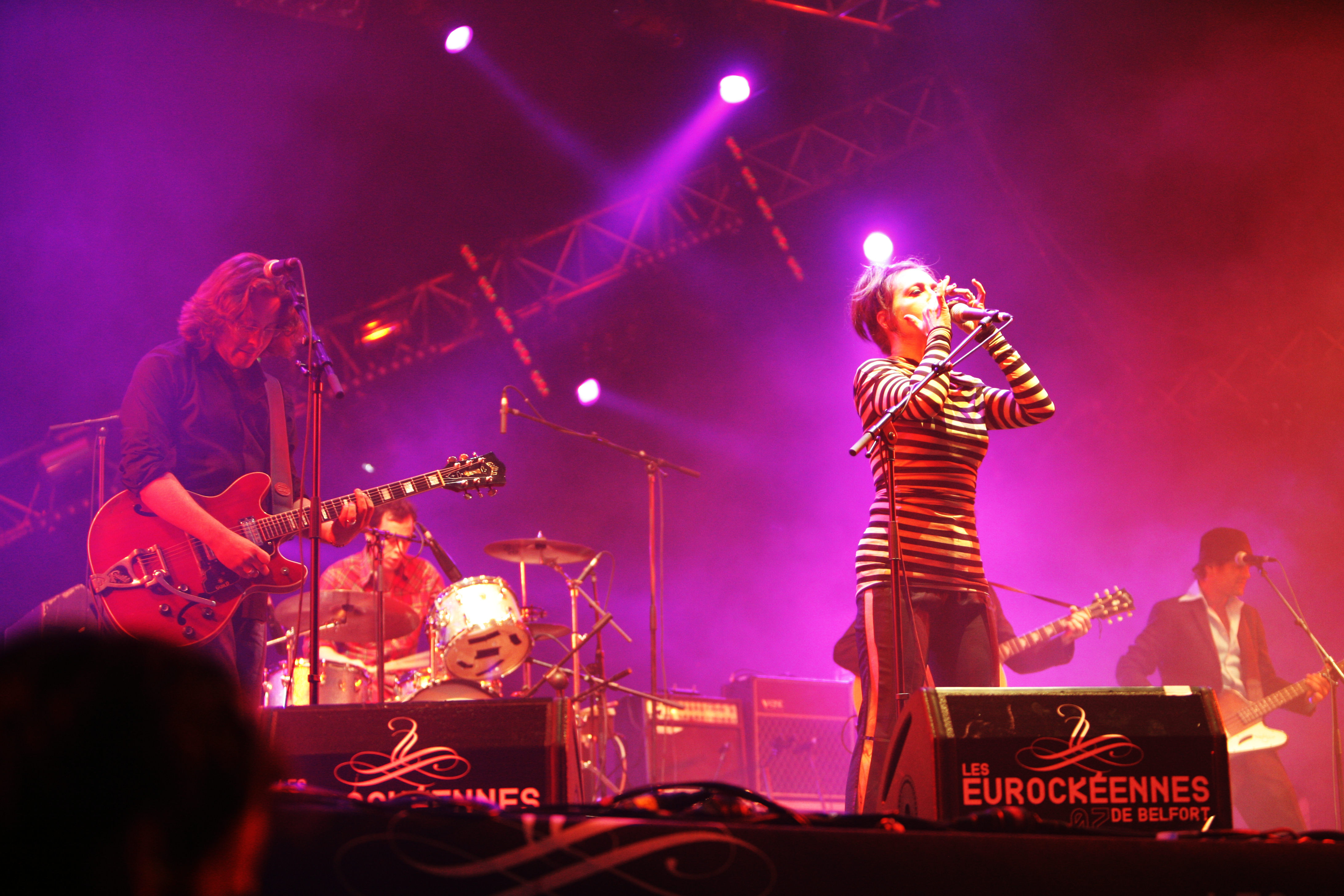 Les Rita Mitsouko at the Eurockéennes of 2007